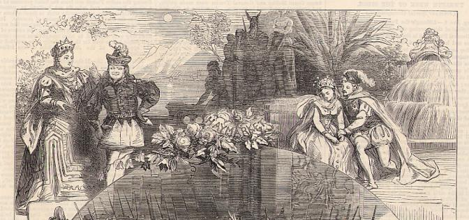 Detail of engraving of Christmas Entertainments from The Illustrated London News, December 31, 1870, the top third being a scene from W. S. Gilbert’s The Palace of Truth at the Haymarket Theatre. Drawn by D. H. Friston